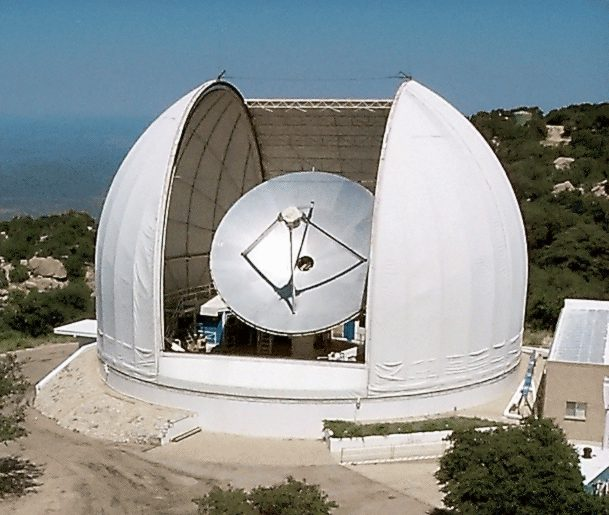 Photo of 12 meter radio telescope on Kitt Peak, Arizona, USA. Photo taken by Jeff Mangum of the NRAO, taken from